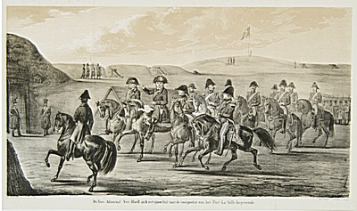 The dutch admiral Verheul during the siege of Den Helder in 1814